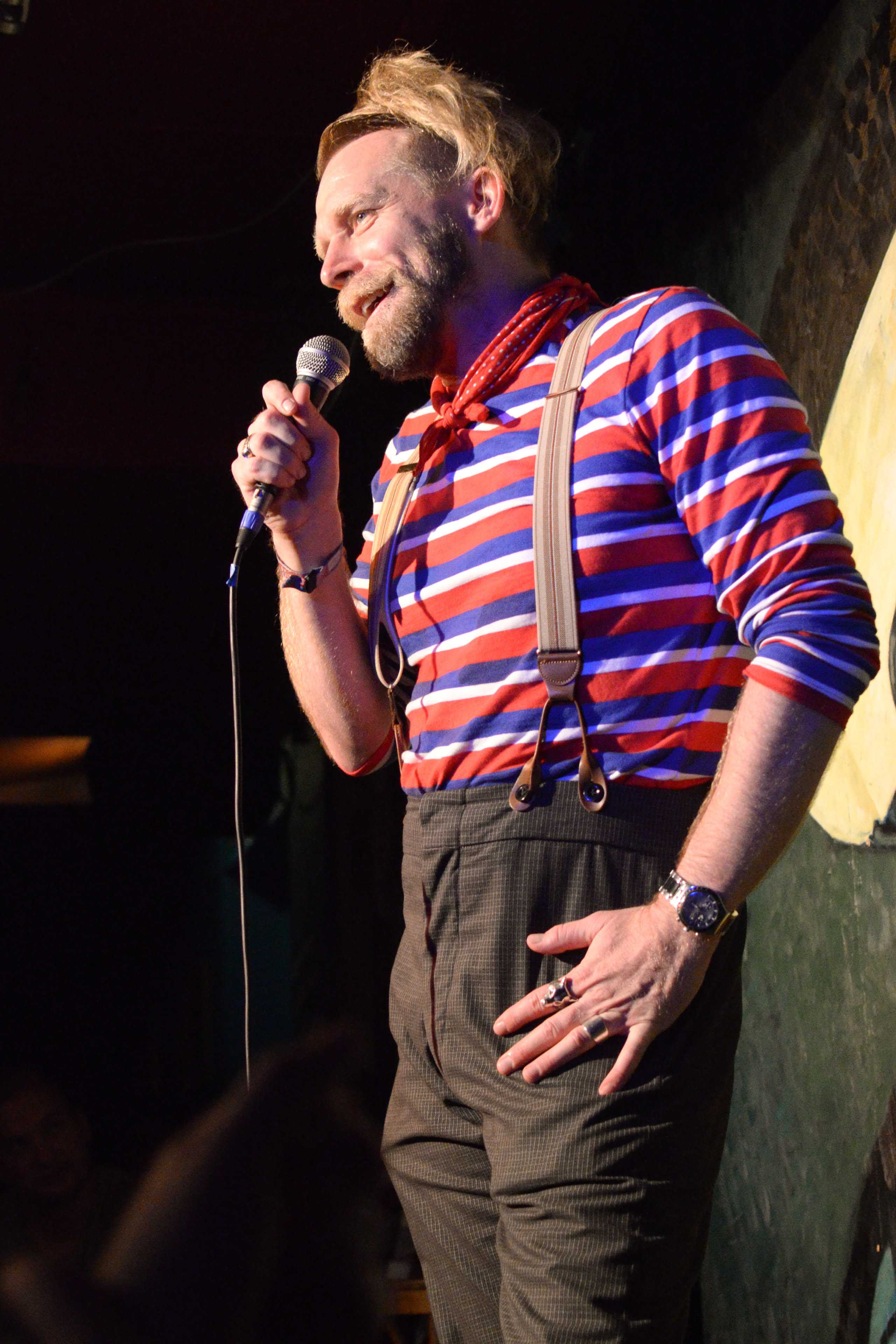 Tony Law at the Edinburgh Festival. Described on flickr as 'Very happy that I took a friends advice to go and see this guy performing at the Edinburgh Fringe. Very funny and friendly comedy. A great demonstration that funny doesn't have to be nasty'.